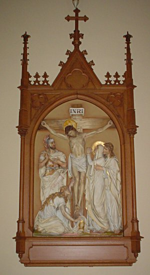 This is the 12th Station of the Cross at St. Raphael's Cathedral, Dubuque, Iowa. I took this photo in February of 2006. Jesster79 01:43, 6 March 2006 (UTC)